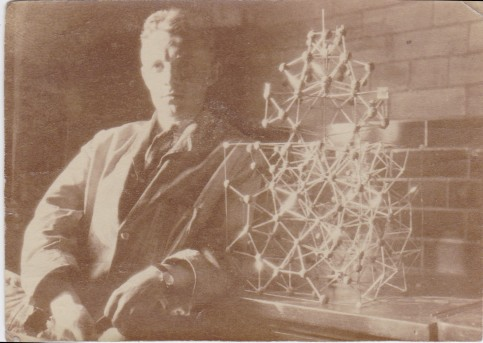 Dr. James F. Keggin, the discoverer of the Keggin Structure.